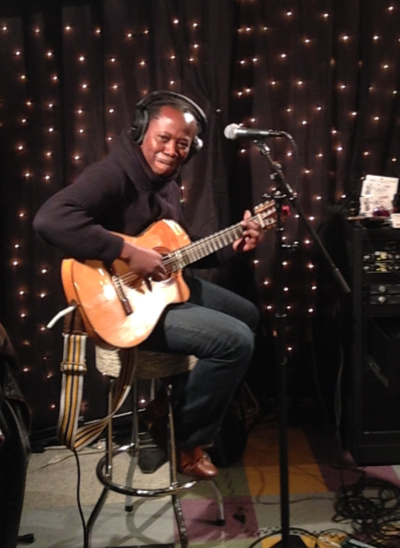 Aurelio at KEKP